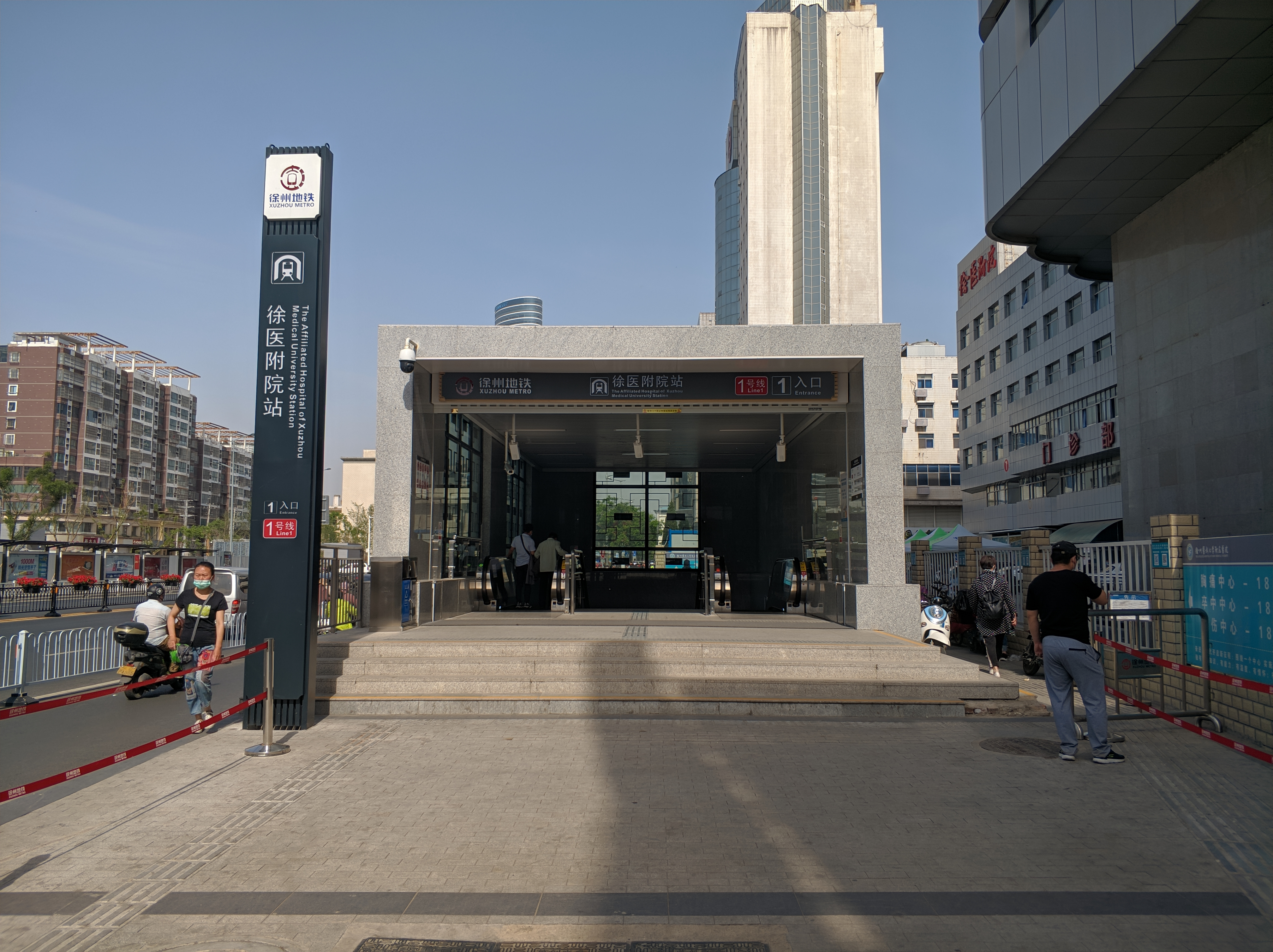 Exit 1 of The Affiliated Hospital of Xuzhou Medical University Station, Xuzhou Metro